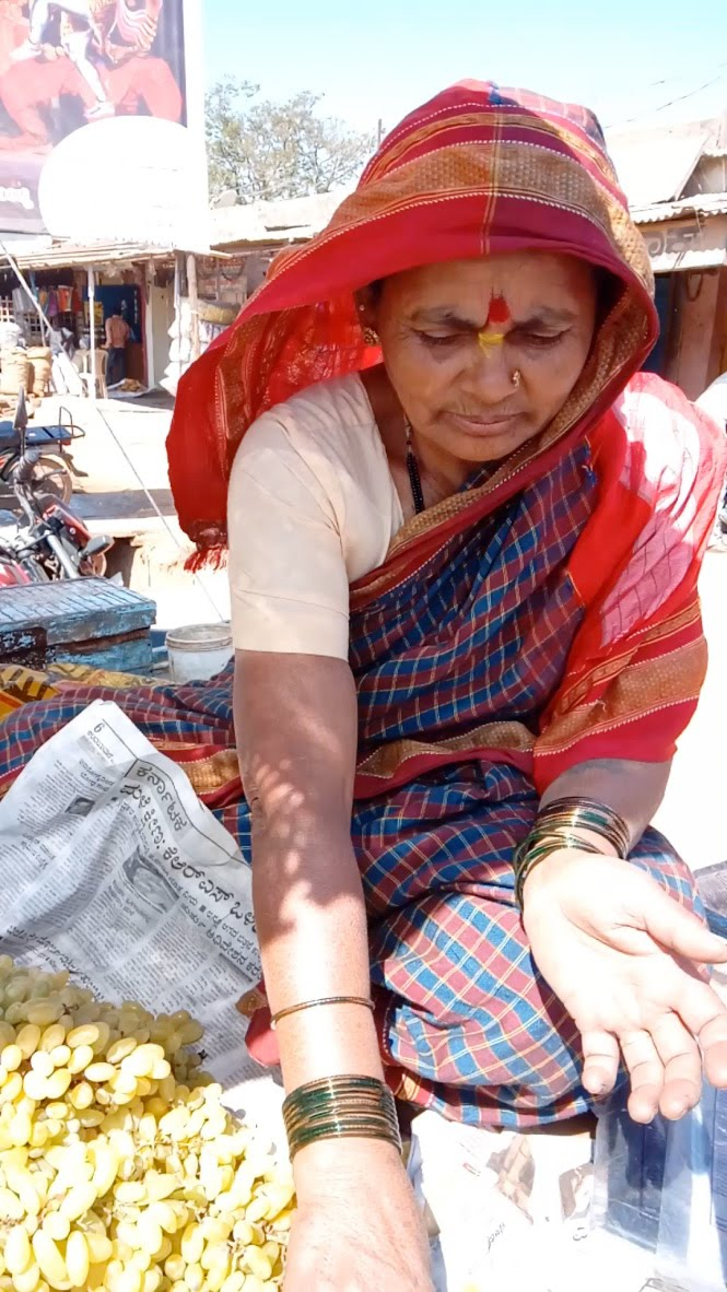 Indian women fruit vendor wearing ilkal saree